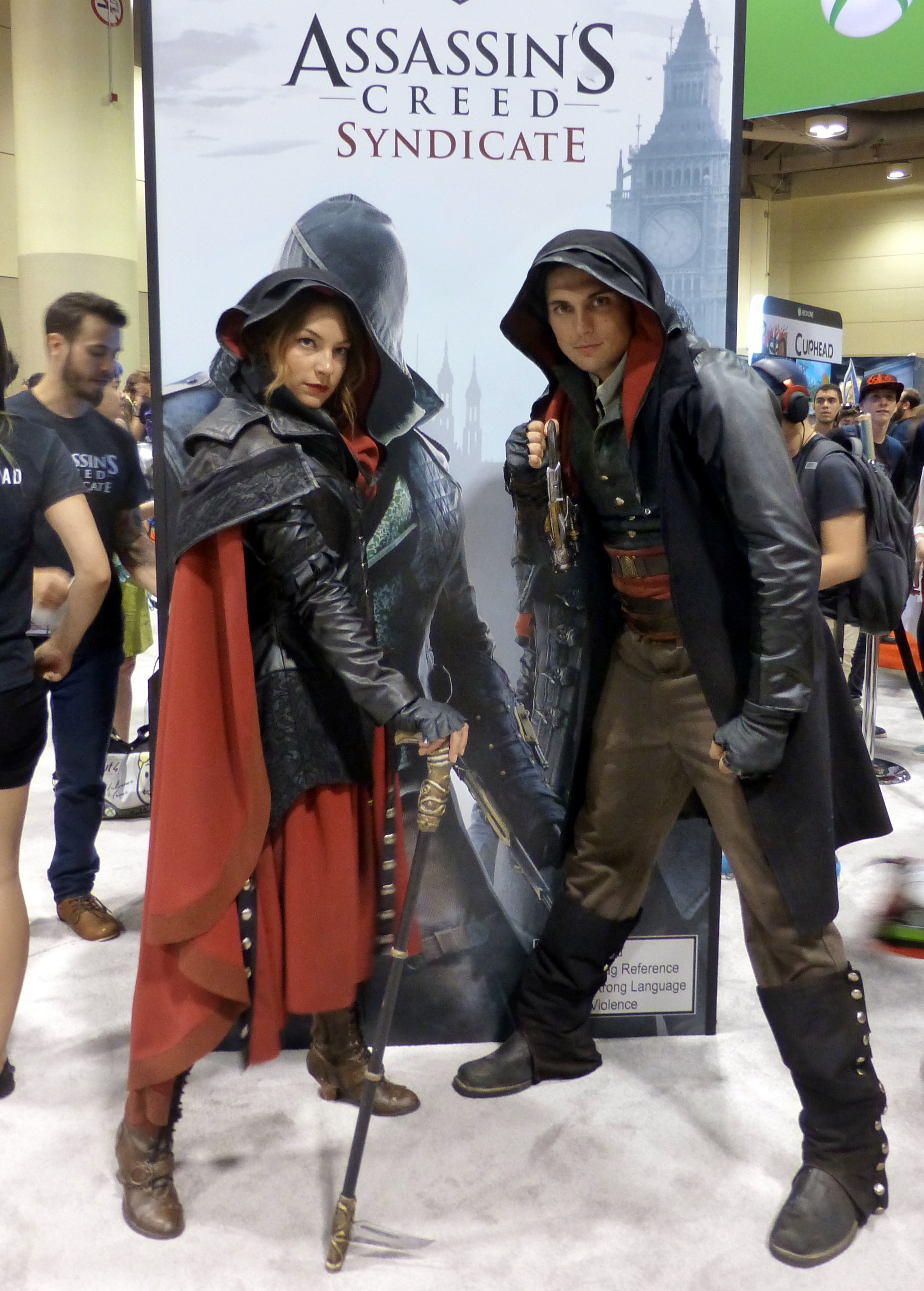 Cosplay of Assassin's Creed Syndicate at Fan Expo Canada in 2015.